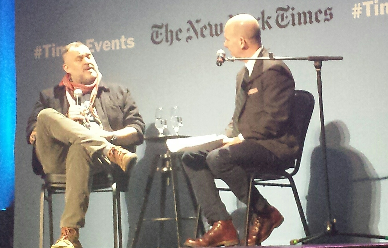 Sam Sifton photographed in Montréal , Québec, Canada at the Corona Theatre.